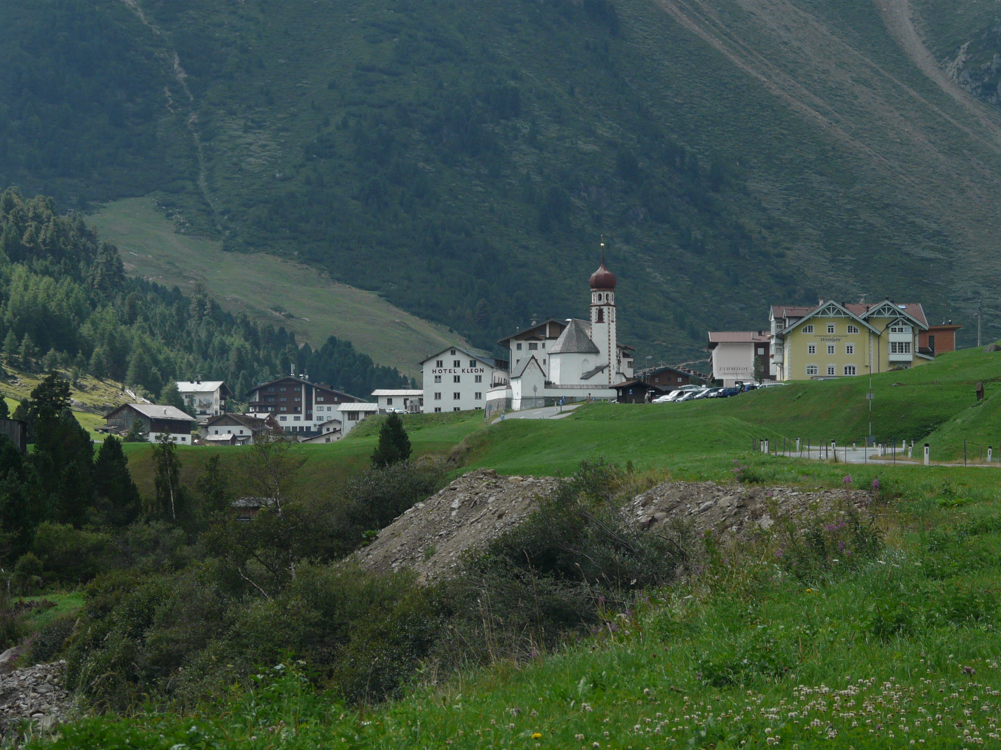 The small mountain village Vent in the Ötztal Alps.